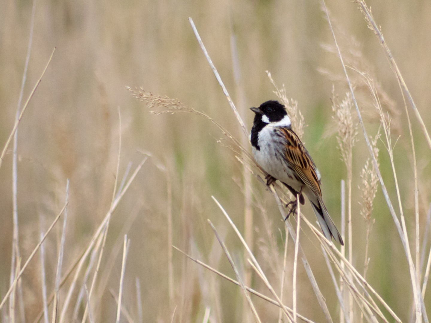 A male Reed Bunting at Rainham Marches, near Purfleet, Essex, England.